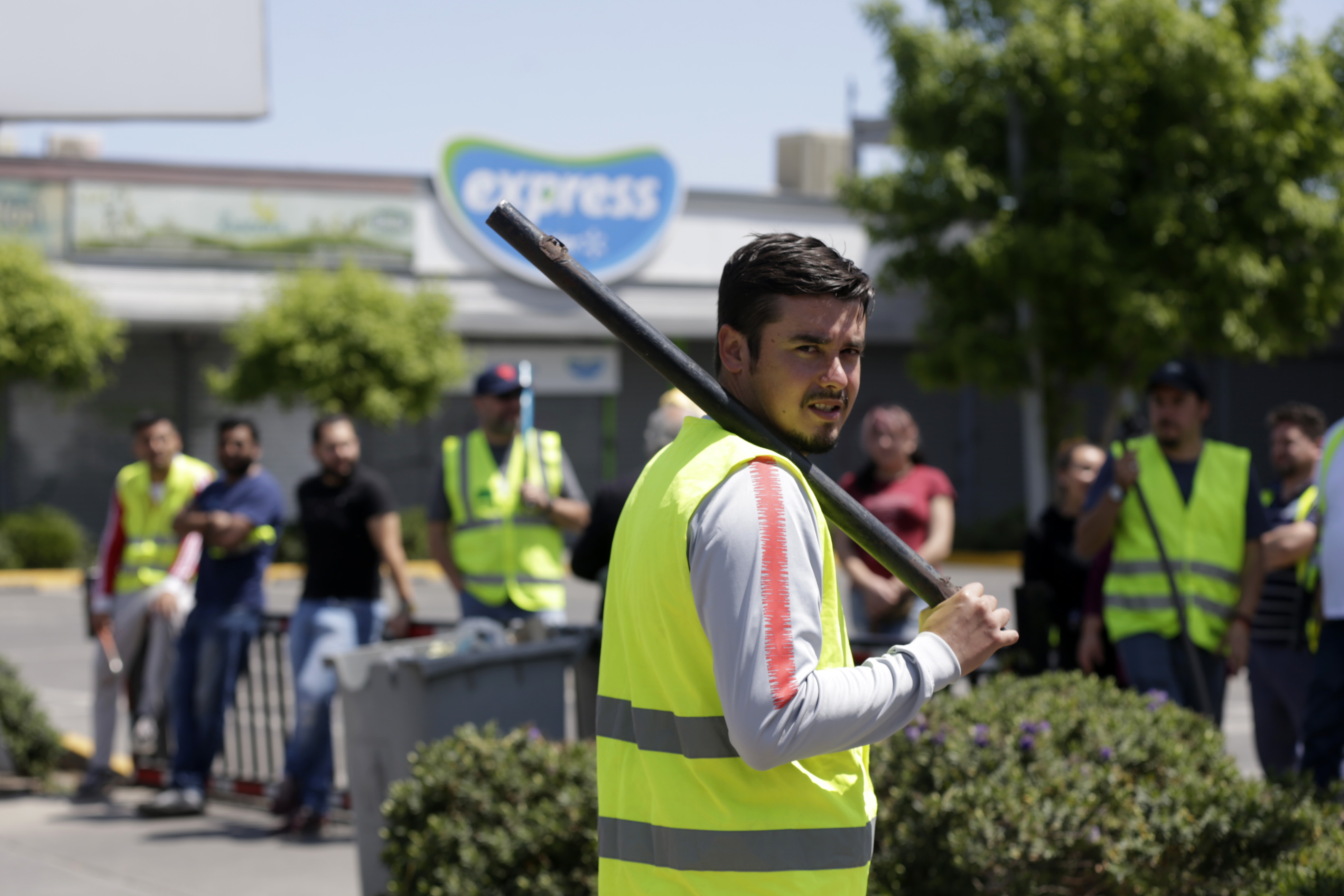 A group of men defend a Lider Express supermarket. Puente Alto, Santiago.